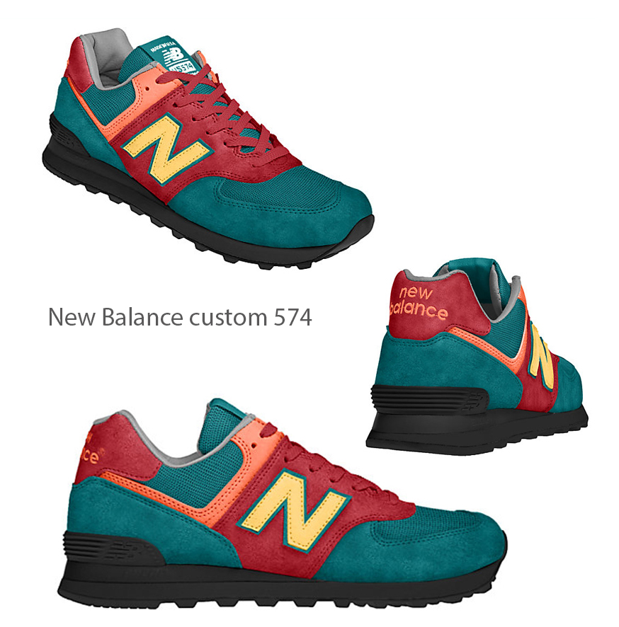 New Balance classic shoes, customized by myself.